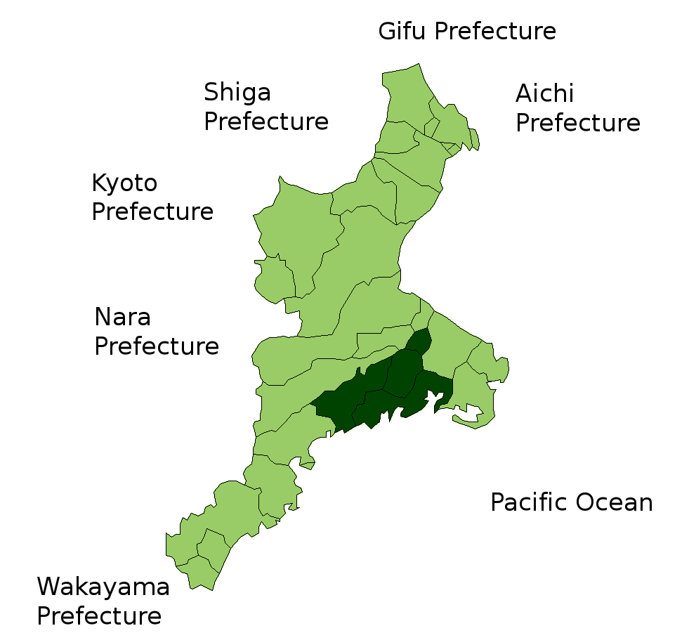 Location Map of Watarai District in Mie Prefecture, Japan